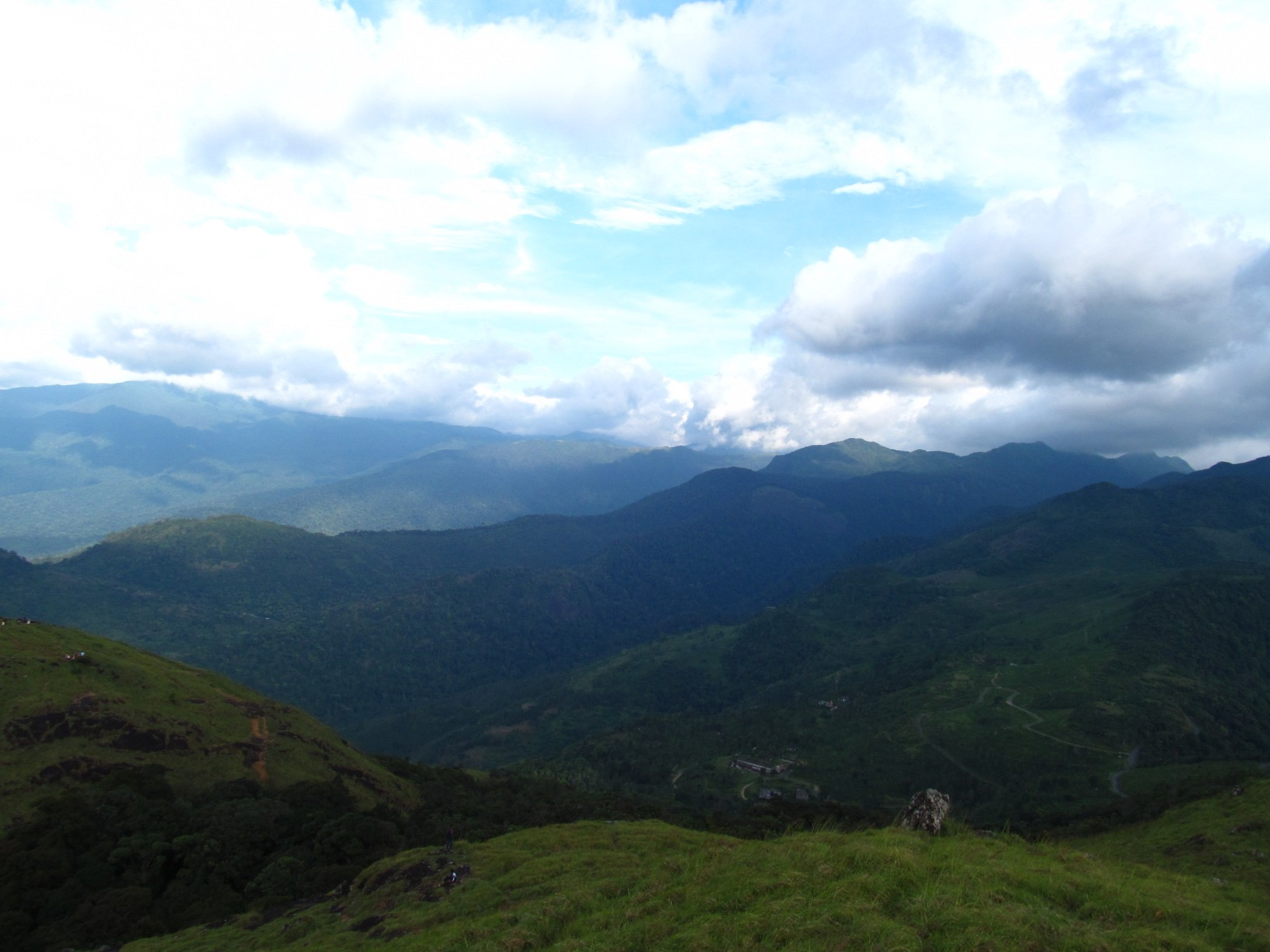 Evening View from Ponmudi Hills